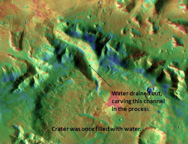 Nilosyrtis Channel, as seen by themis. Location is 29.2 degrees north latitude and 73 degrees east longitude. Picture taken with Mars Odyssey's THEMIS. Photo credit NASA/JPL/ASU.